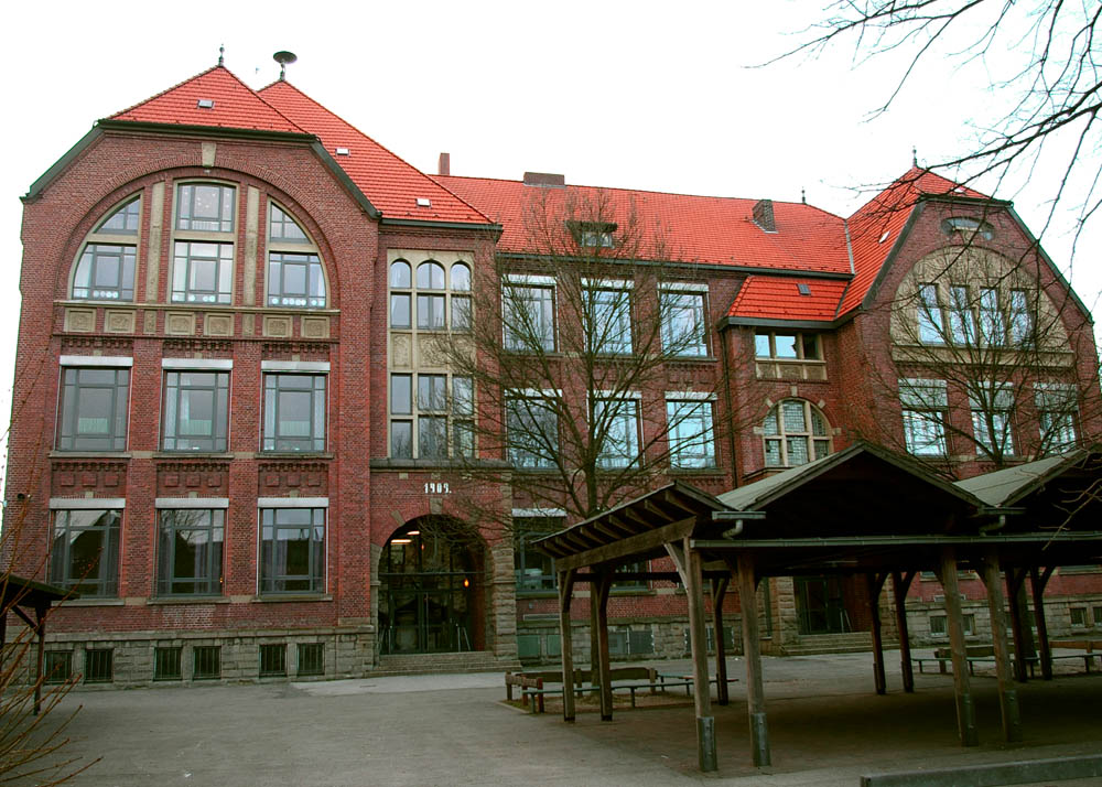 Freiligrath School in Witten